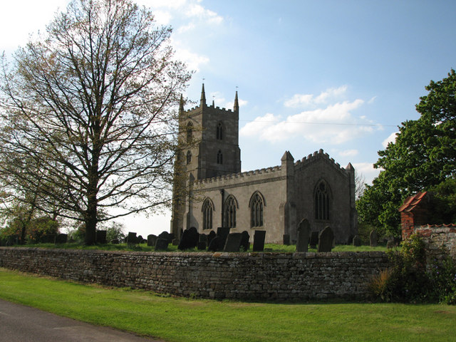 Teigh: Holy Trinity Although the church is just in SK8616, the road through the village, from which this photo was taken, is not.